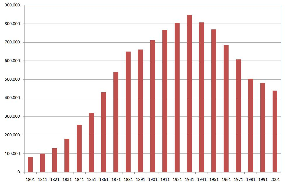 Liverpool population history